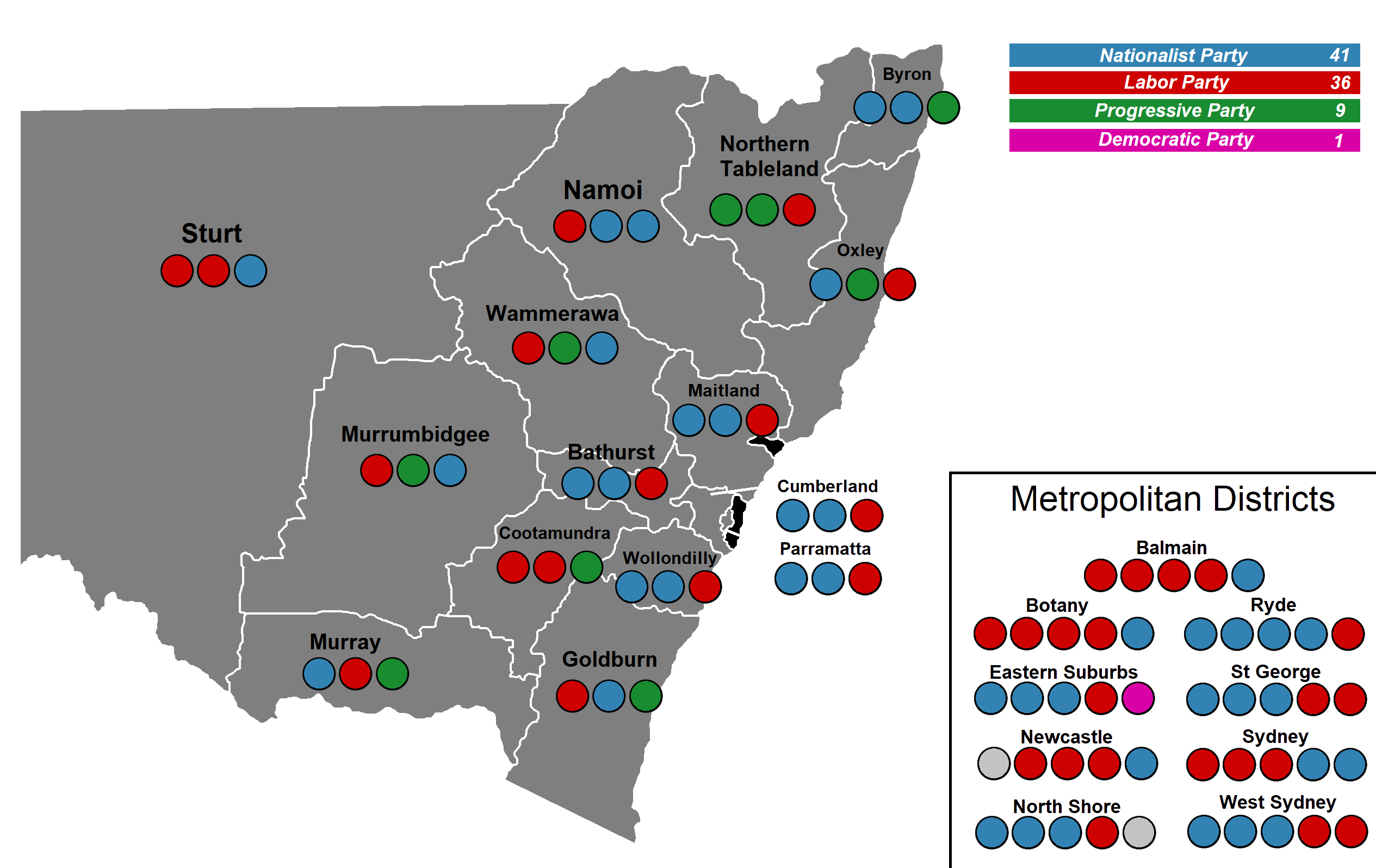 Electoral Map of the NSW Election 1922